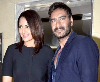 Team of 'Action Jackson' meets the media